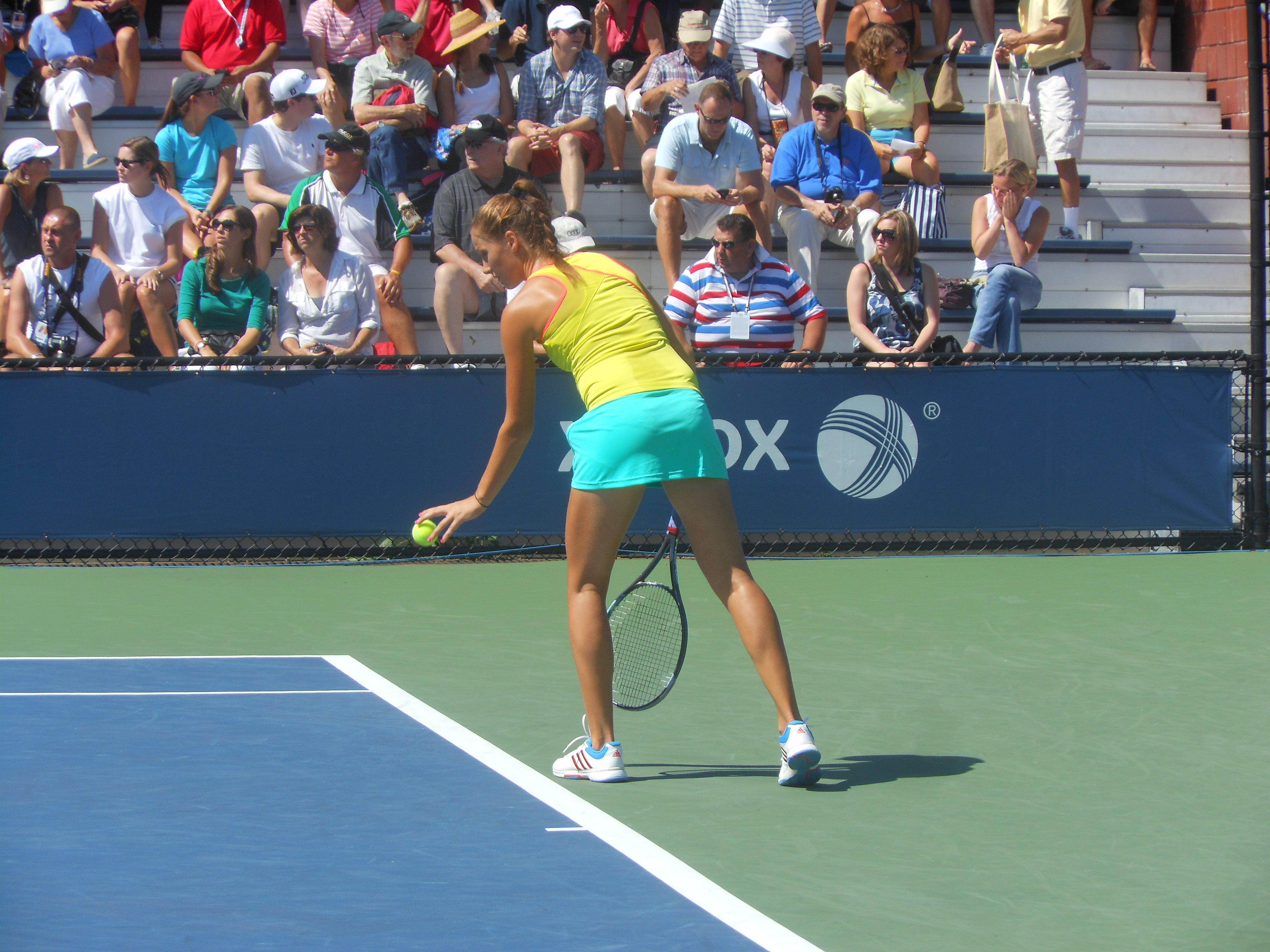 Bojana Jovanovski 2013 US Open